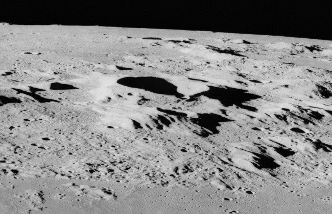 Oblique view of Ukert crater, facing south, on the moon.